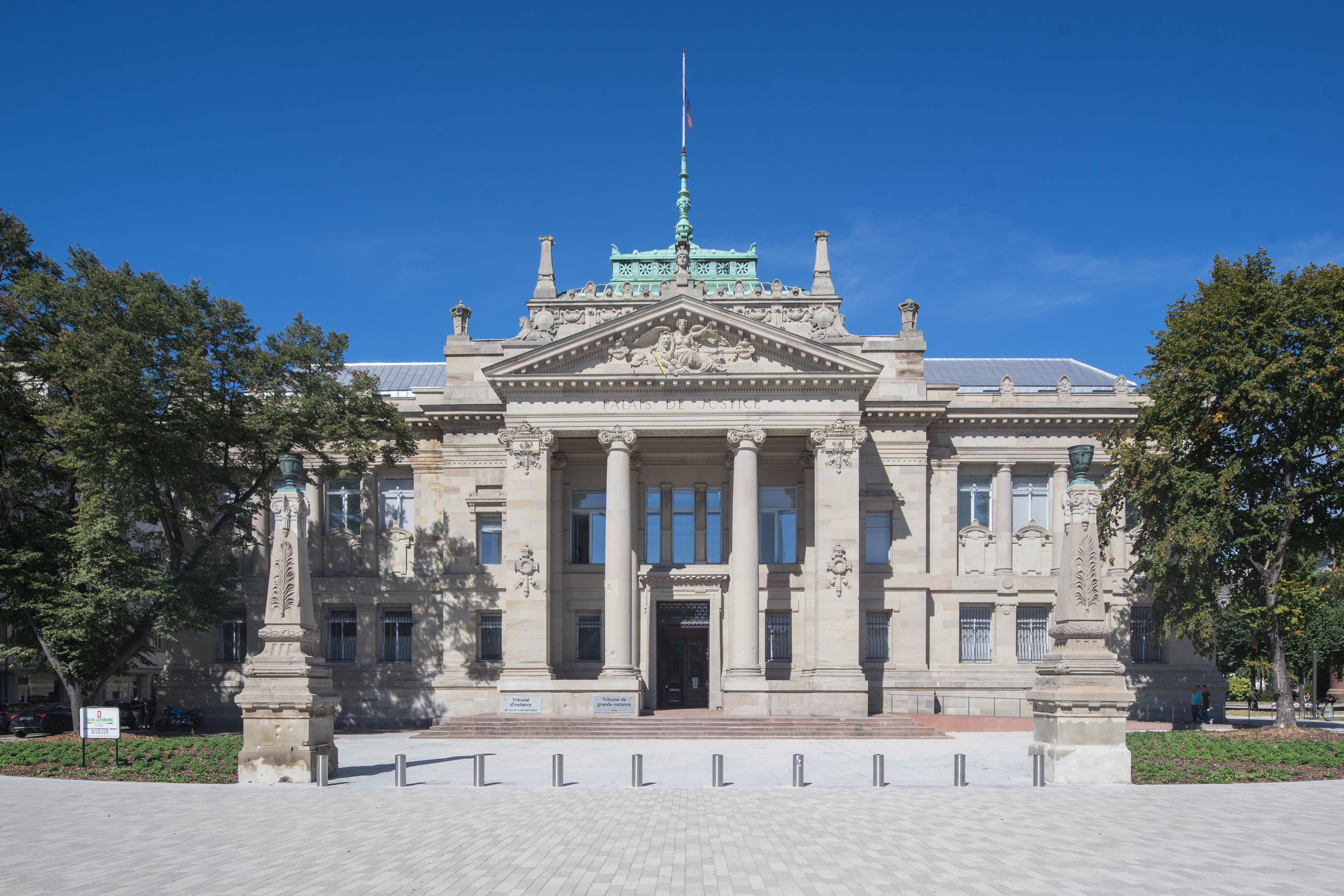 Palais de Justice de Strasbourg front view .